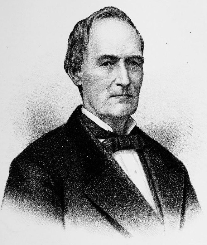 J. Allen Barber (Wisconsin Congressman)